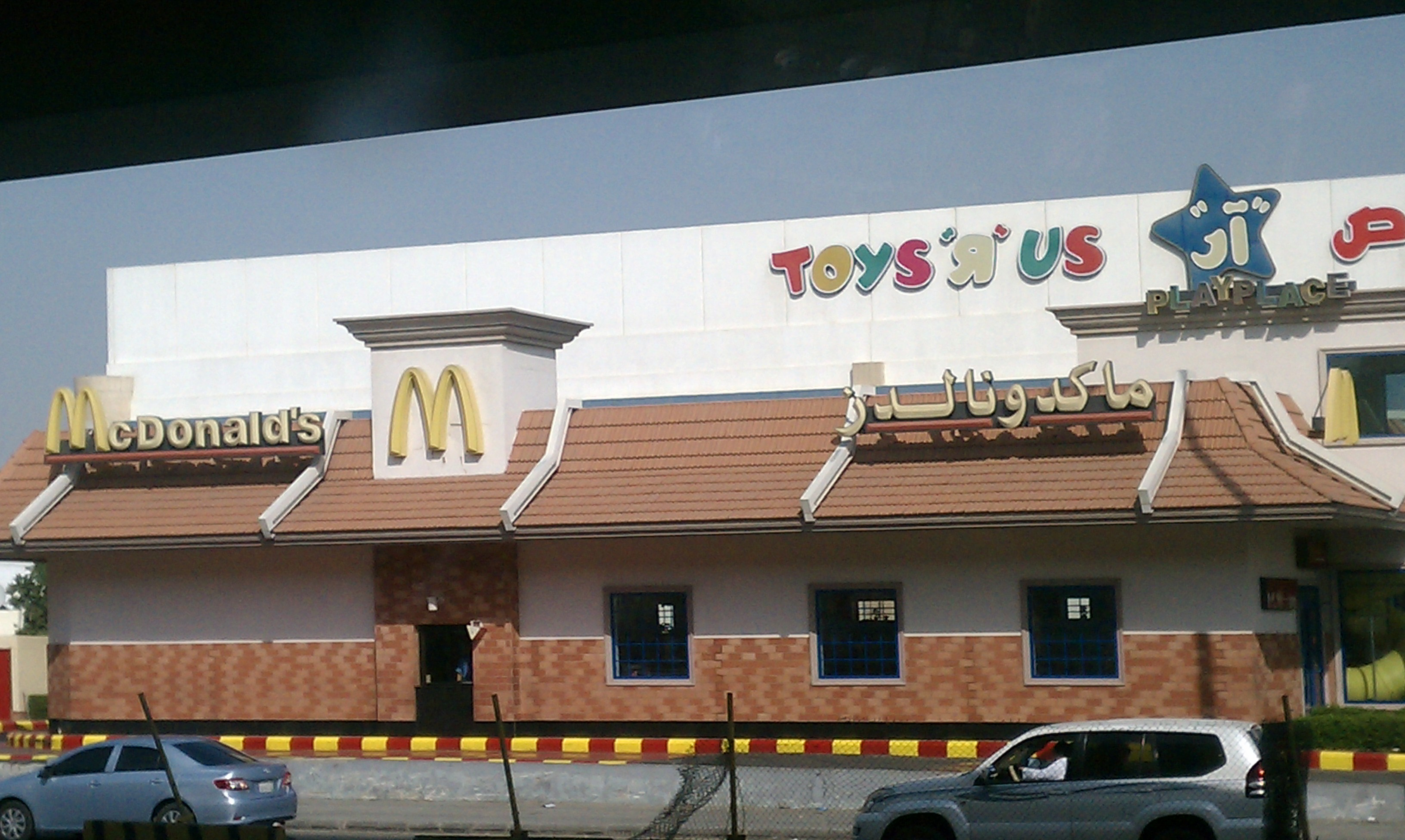 McDonald's and Toys "R" Us in Jeddah, Saudi Arabia